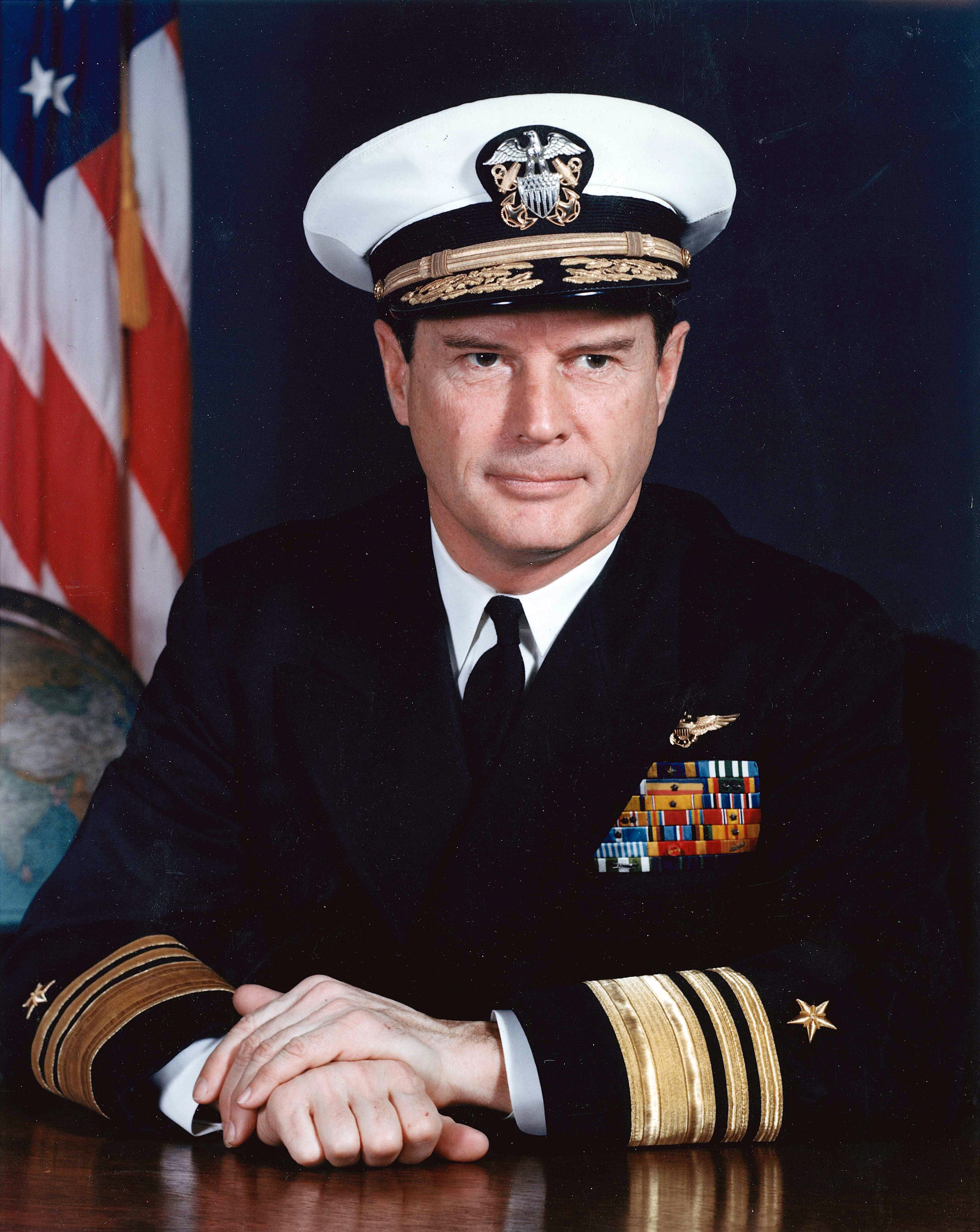 VADM Vincent P. de Poix